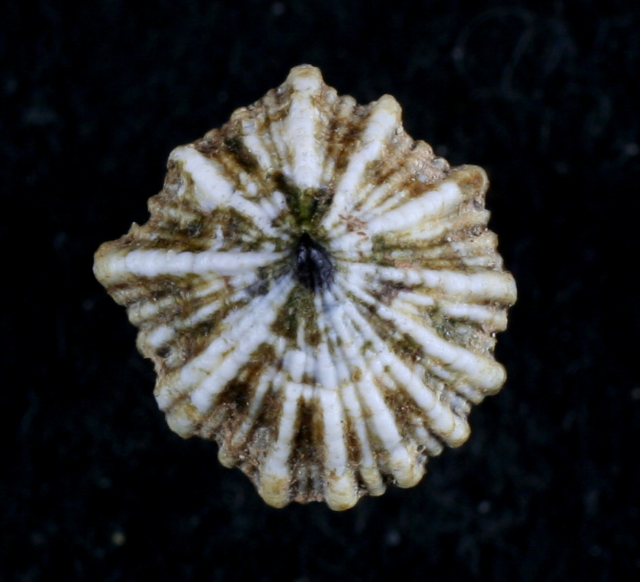 Siphonariidae: Siphonaria normalis